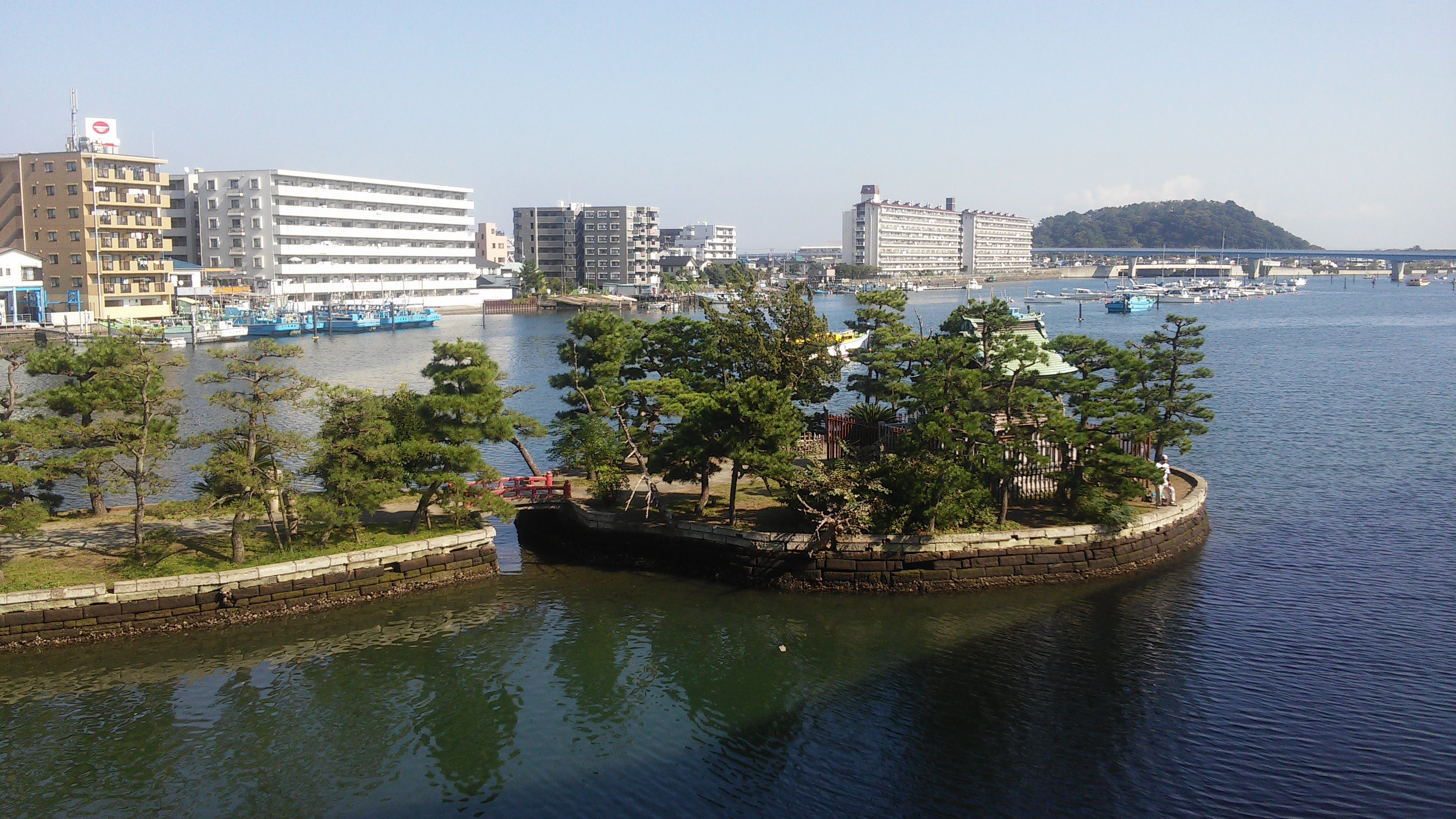 Biwajima, Kanazawa ward, Yokohama, Japan